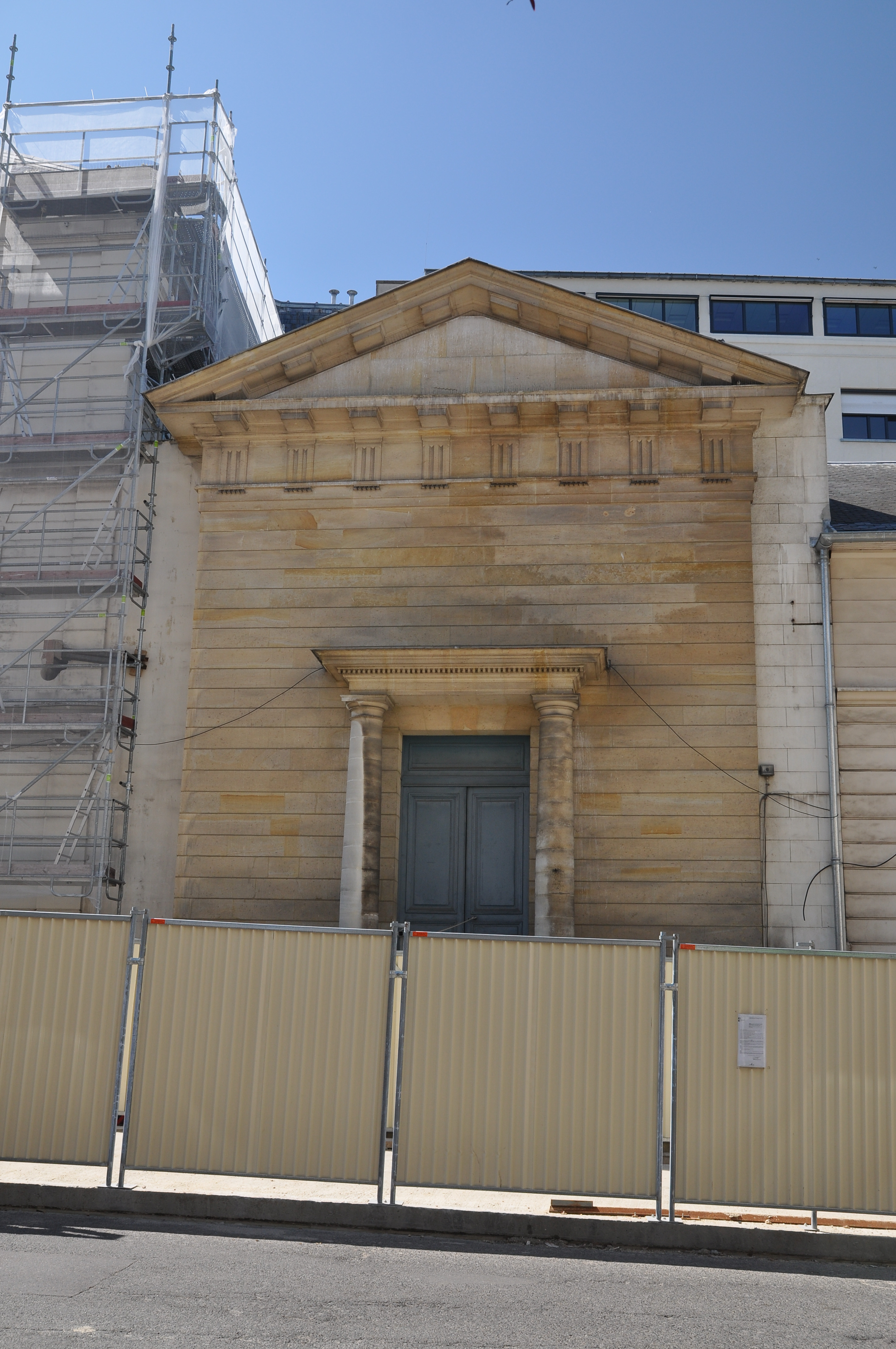 The old hospital of the Queen in Saint-Cloud in the department of Hauts-de-Seine in France. The hospice, founded by Marie Antoinette was built in 1788 by architect Richard Mique. The fact remains that the listed chapel surrounded by buildings from the 19th and 20th centuries.